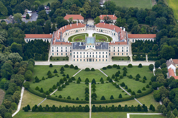 Fertődi kastély és a parkja légi felvételen